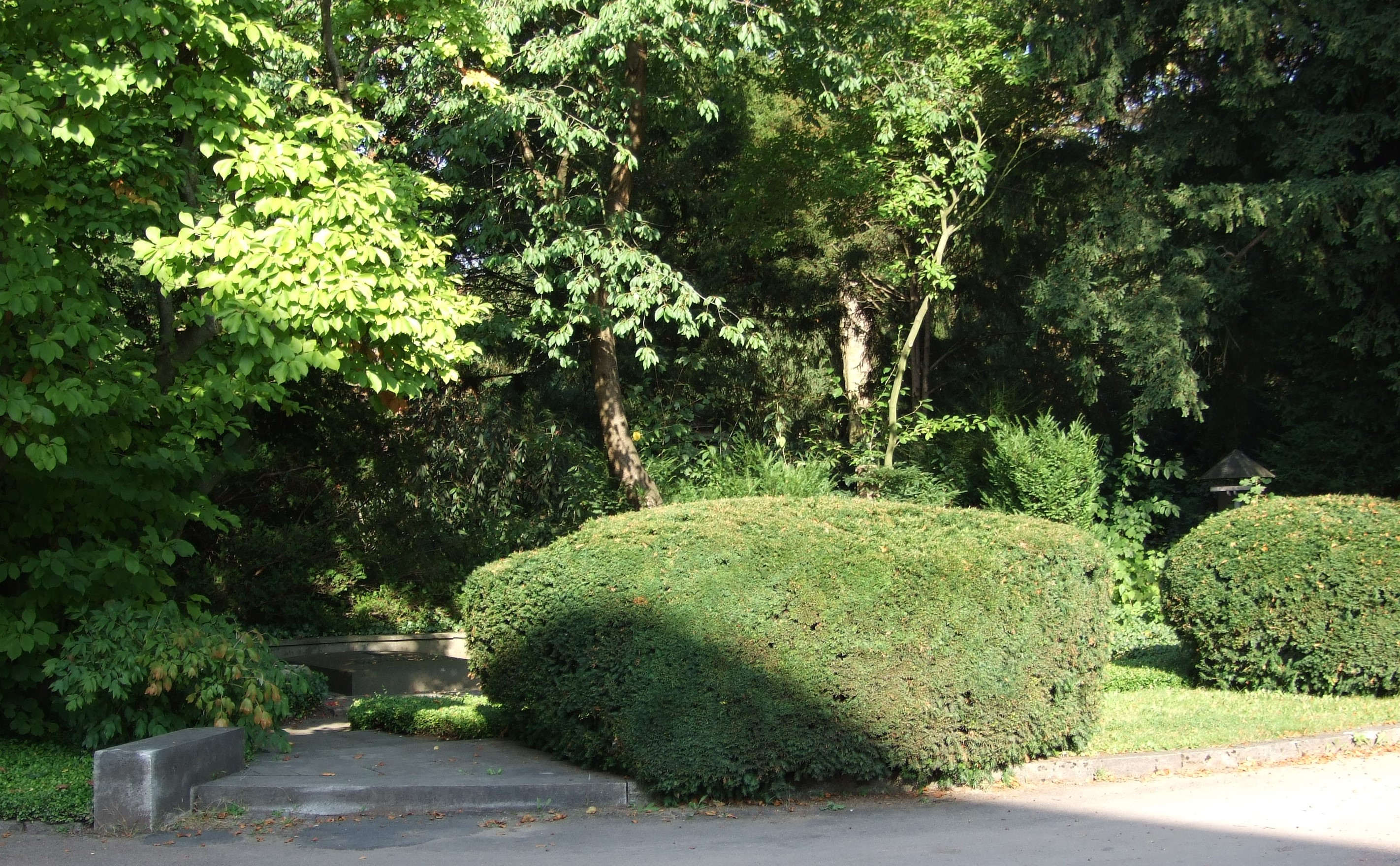 Grave of Walter Kolb, Hauptfriedhof, Frankfurt am Main, Germany